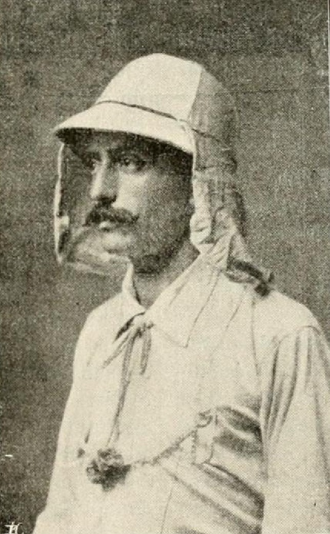 Portrait of Sámuel Fenichel